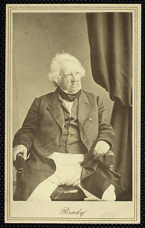 Portrait of Gulian Crommelin Verplanck (1786-1870) by Mathew Brady.